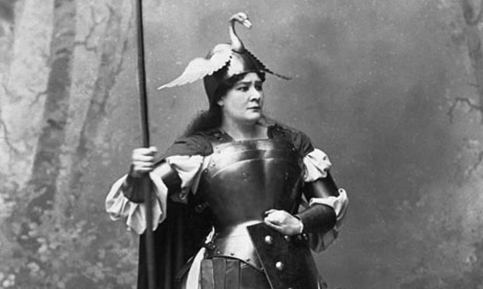 Ernestine Schumann-Heink (1861-1936) as Waltraute in a production of Richard Wagner's Ring cycle, circa 1900.